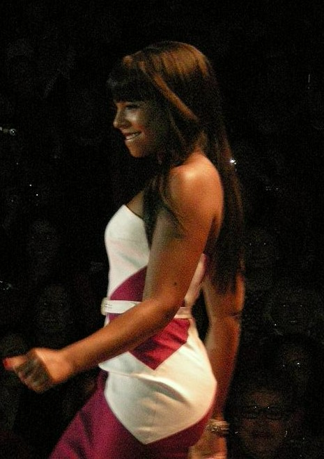 Ashanti modeling at the Red Dress Collection charity fashion show to benefit The Heart Truth. Identity confirmed through image gallery at (a gallery of professional photos of the same event that has the models identified).